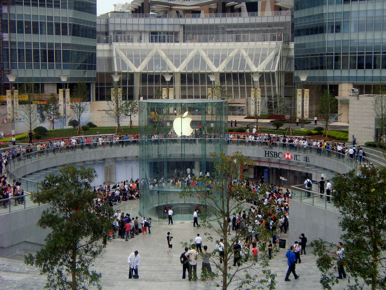 Apple Store underneath the forecourt of the Shanghai IFC mall.